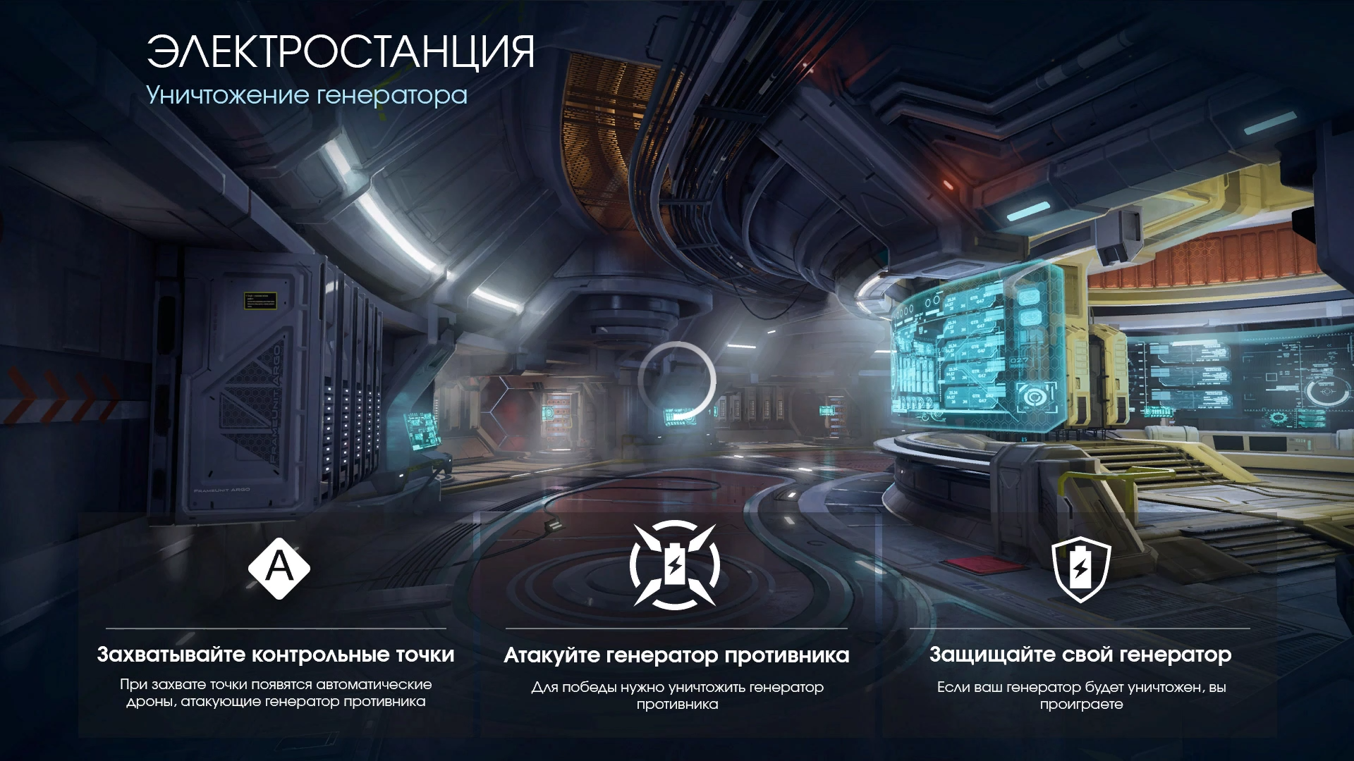 A screenshot from CityBattle: Virtual Earth. Loading screen / Respawn point.